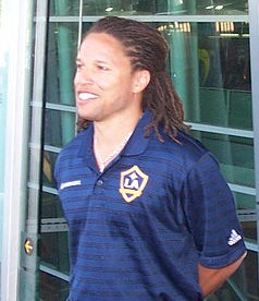 Cobi Jones (29th november 2007)